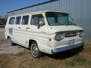 Corvair Greenbrier seen in East Texas.